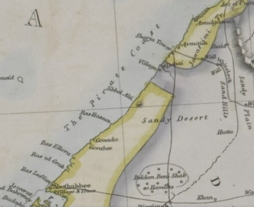 ‘Map of Arabia. Compiled from all the most recent authorities, by order of the Court of Directors of the East India Company by John Walker’ [1r] (1/2), British Library: Map Collections, IOR/X/3206, in Qatar Digital Library